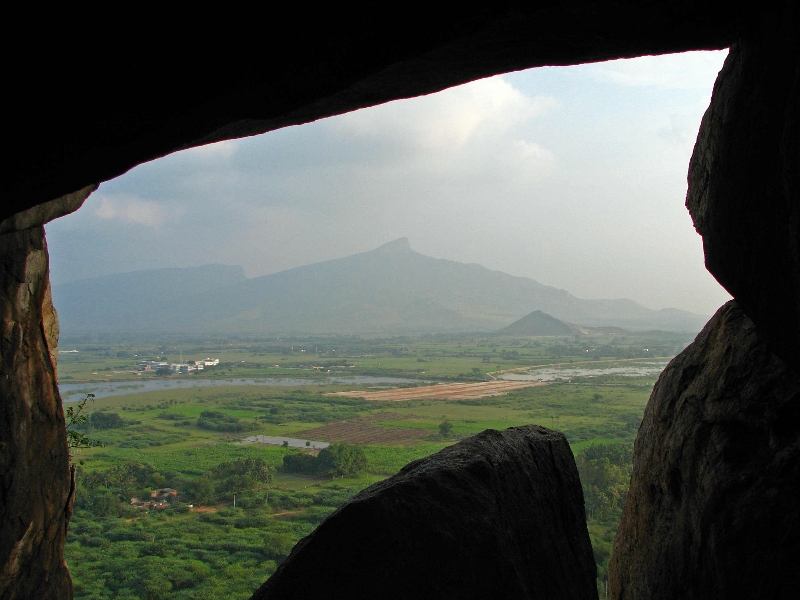 A beautiful scenic view of the eastern ghats shot from a cave in Puttur, AP.